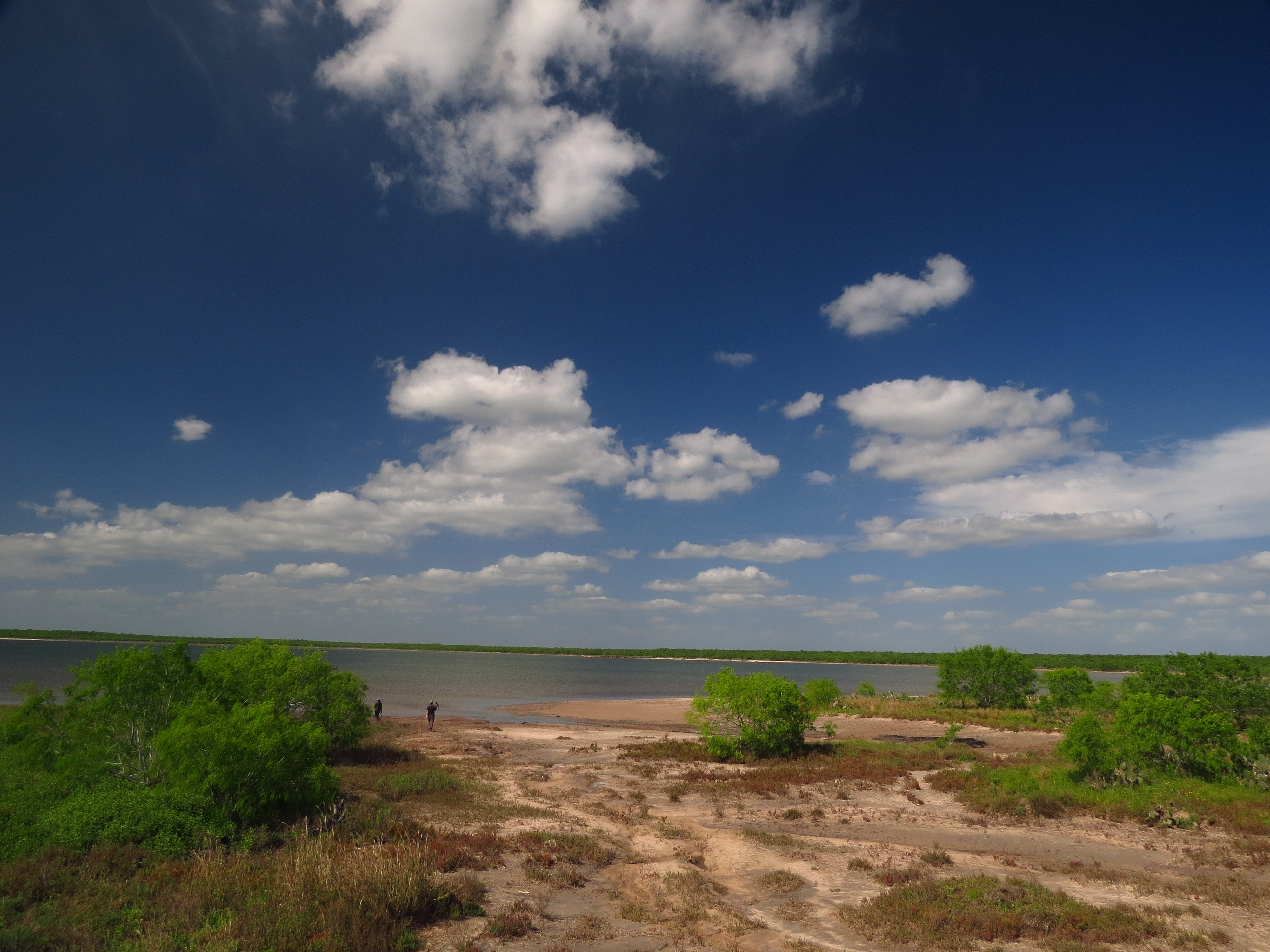 El Sal Del Rey inside the Lower Rio Grande Valley National Wildlife Refuge in South Texas